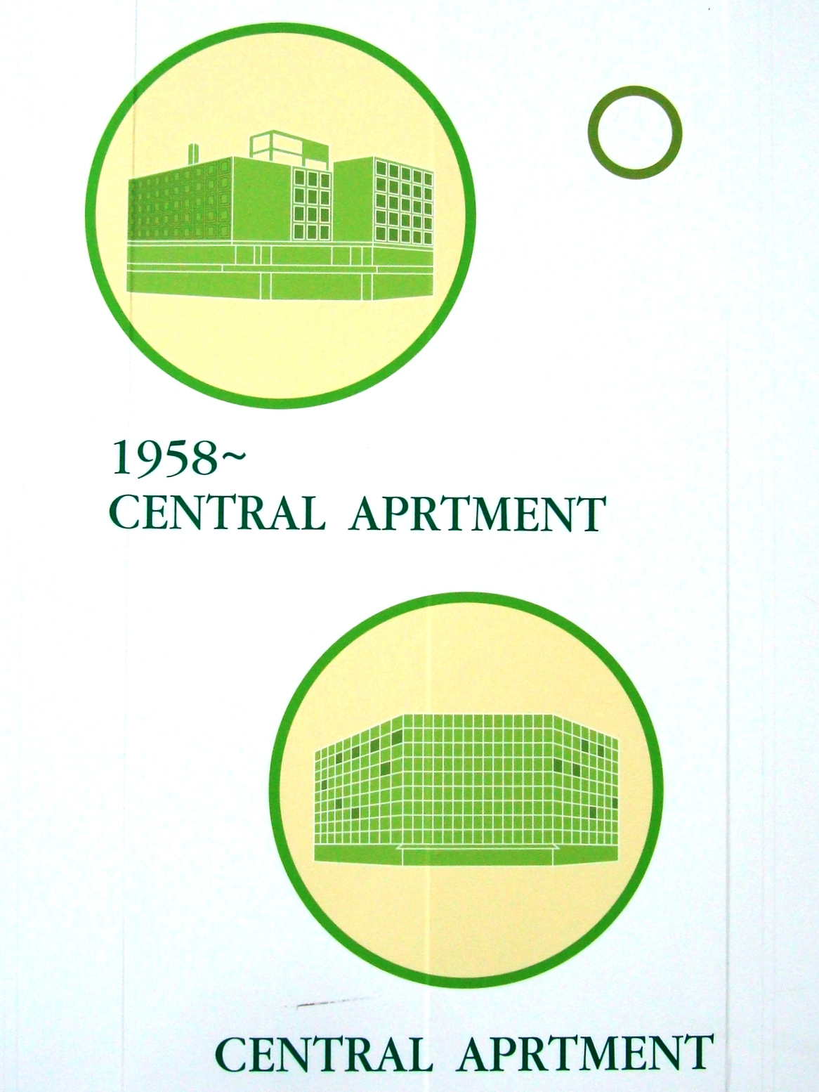 Billboard illustrations of Harajuku Central Apartments at the construction site for Tokyu Plaza (Jingu-mae 4, Shibuya, Tokyo)